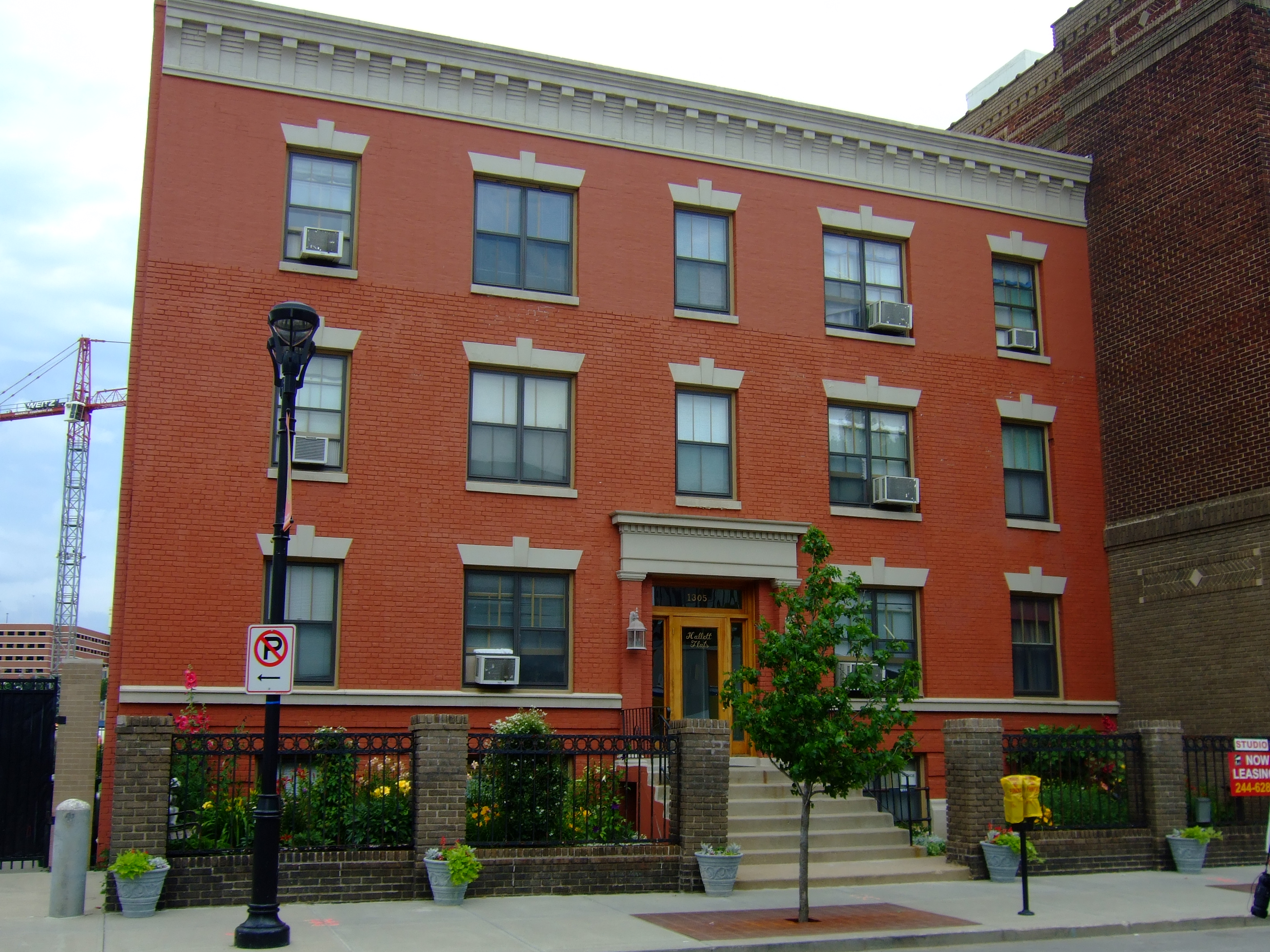 Hallett Flat-Rawson & Co. Apartment Building (1906) at 1305 Locust Street in Des Moines, Iowa. Added to the National Register of Historic Places in 2009.